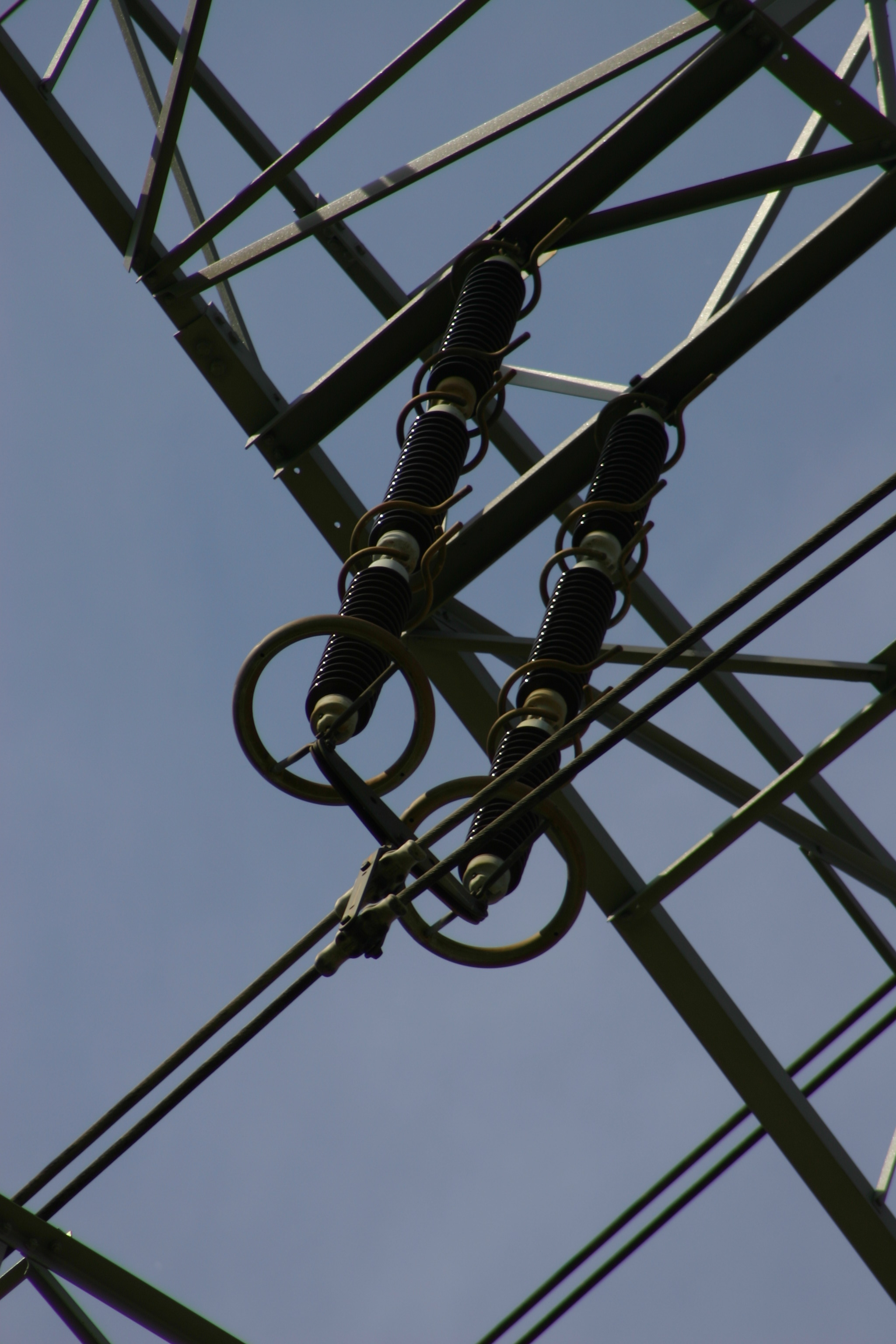 High-voltage Transmission Insulator